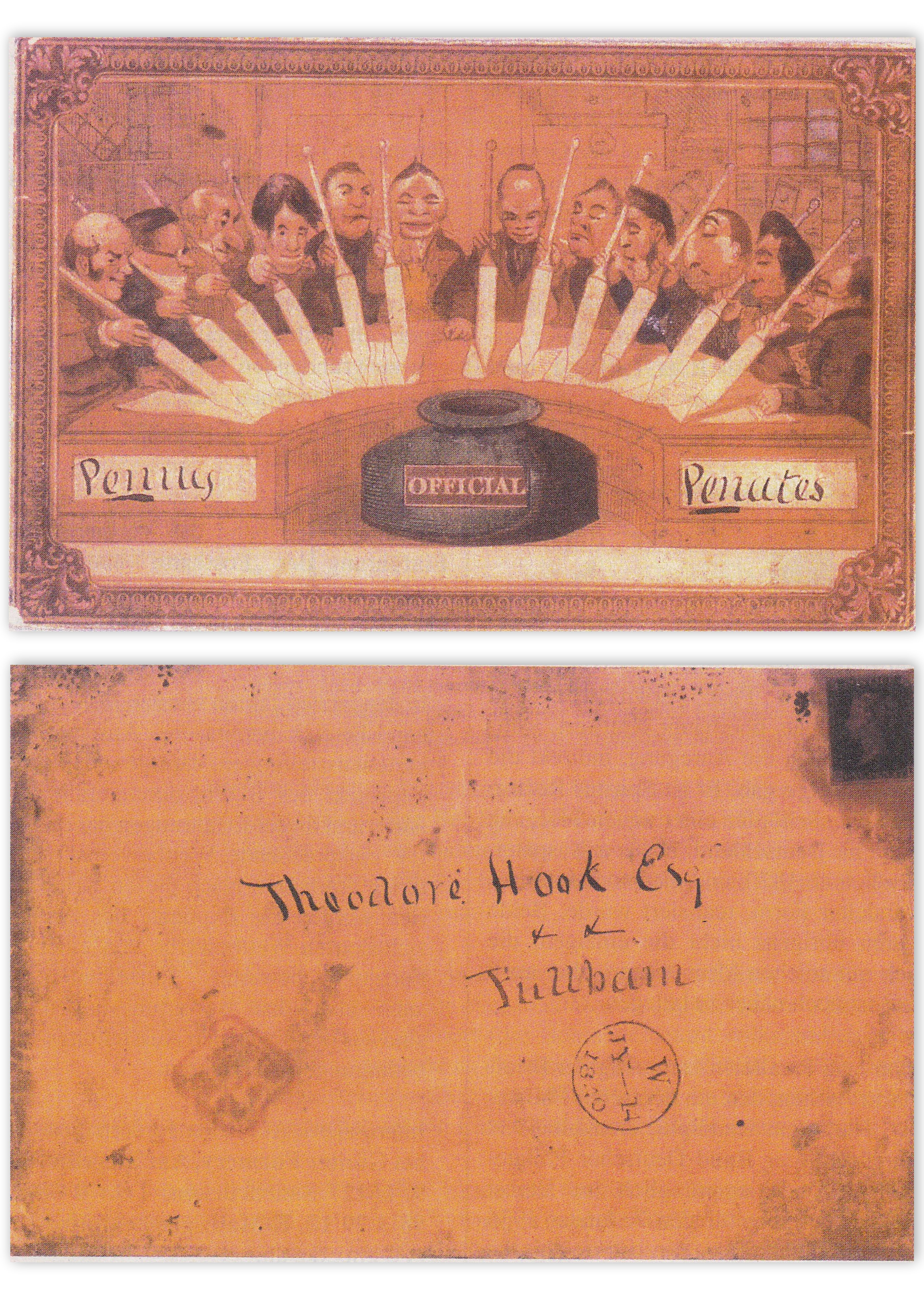 Most expensive and maybe oldest illustrated postal card of the world. This card with the penny black stamp and the postmark (14th Juni 1840) was auctioned in London 2002 for 31.000 British Pound. Size: 20 cm x 13 cm